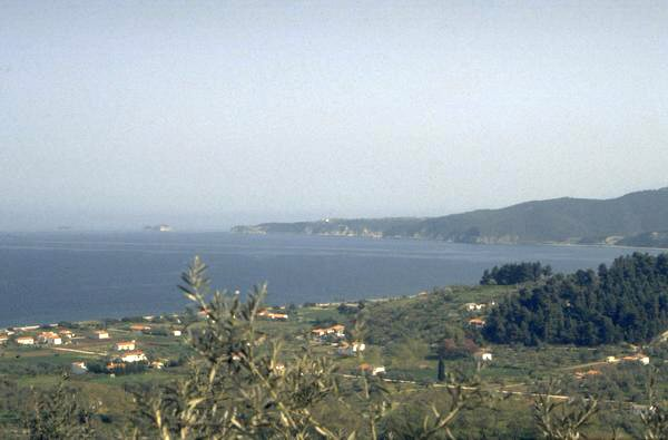 Euboea's northern shore, the Hollows